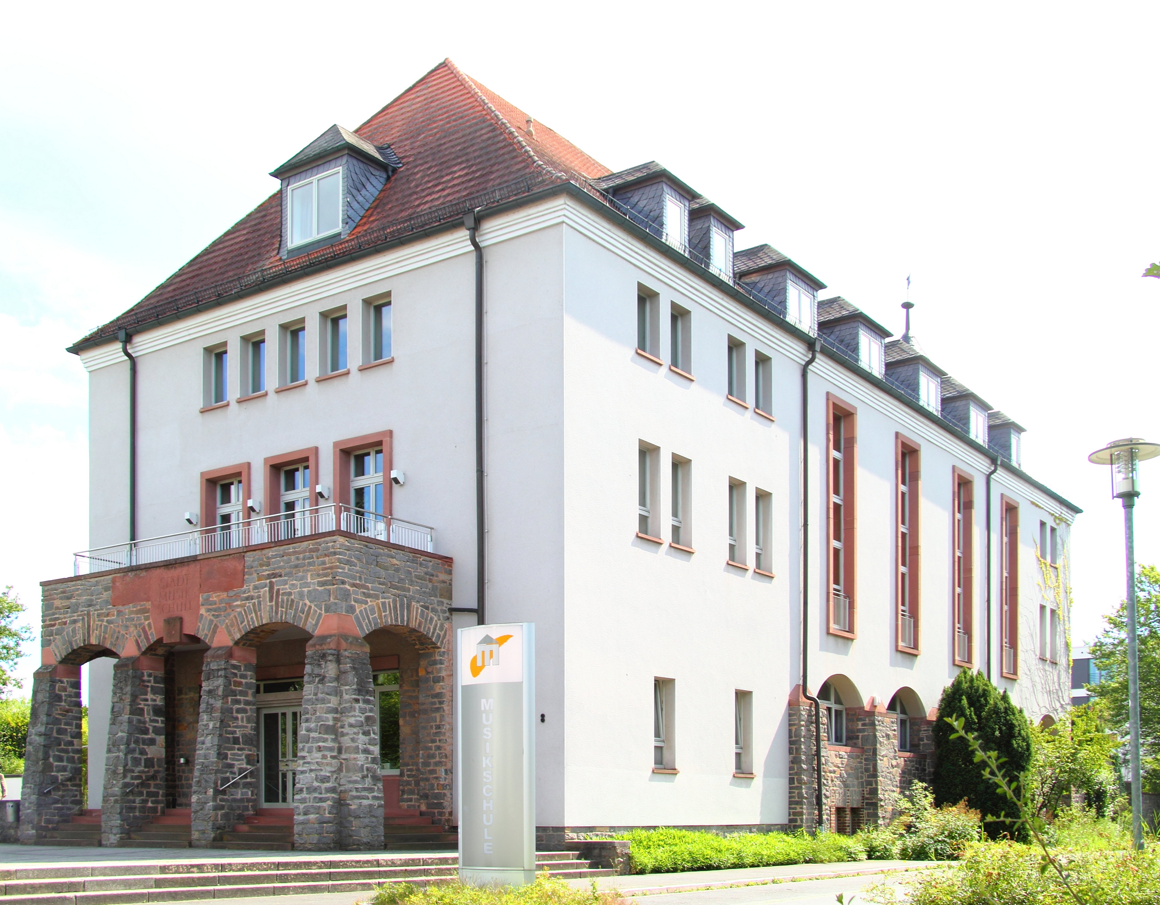 Aschaffenburg, Germany: Municipal Music School in Kochstrasse